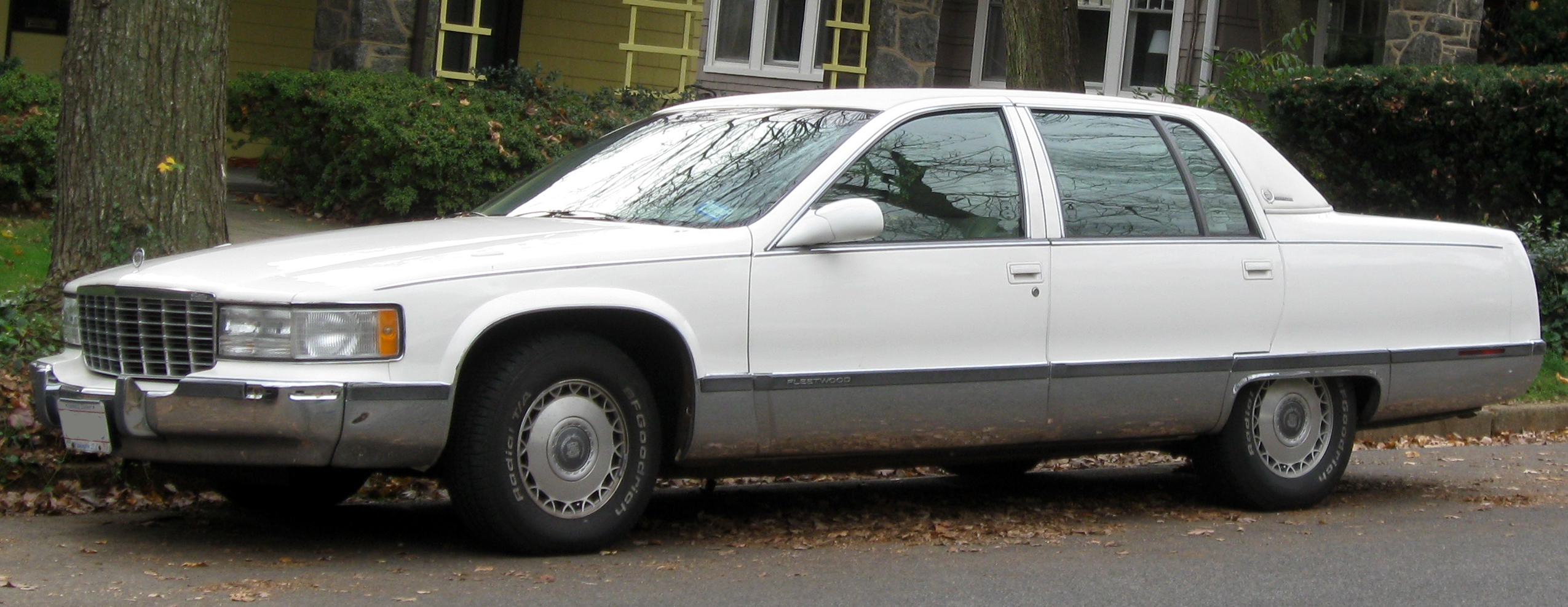 1993-1996 Cadillac Fleetwood Brougham package photographed in Washington, D.C., USA.